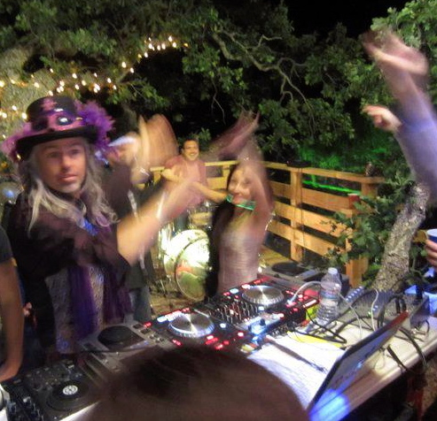 Possibly the first tree house dance and art party